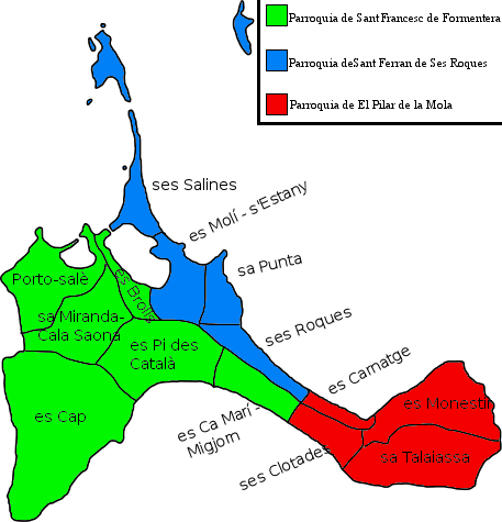 Map of Formentera